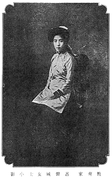 Lü Bicheng as educator